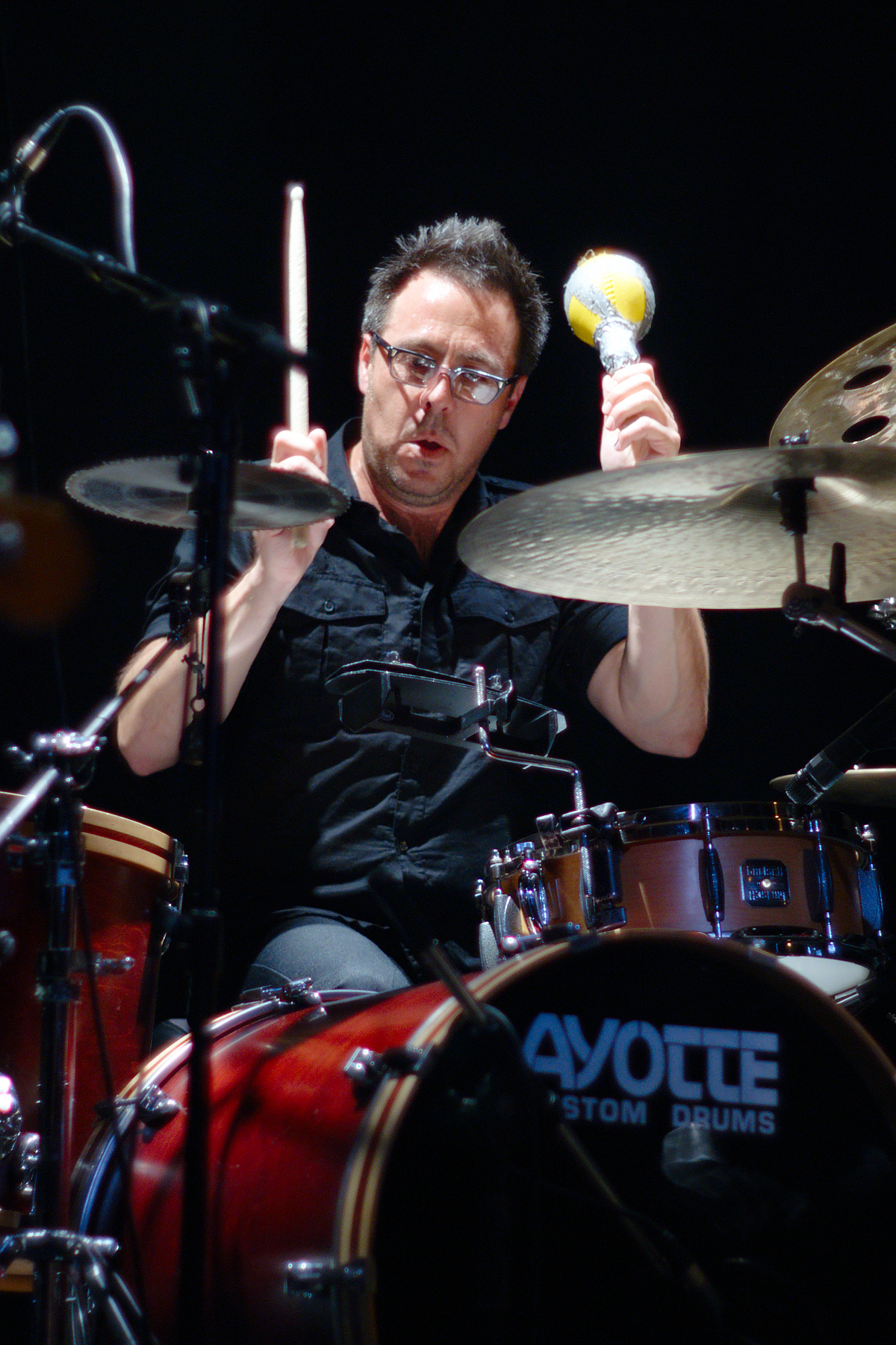 View in my concert gallery.